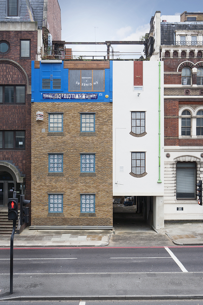 A photograph of Alex Chinneck's 'Under the weather but over the moon'